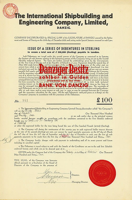 100 sterling worth of stock of the International Shipbuilding and Engineering Company, Limited, better known by its German name of Danziger Werft.